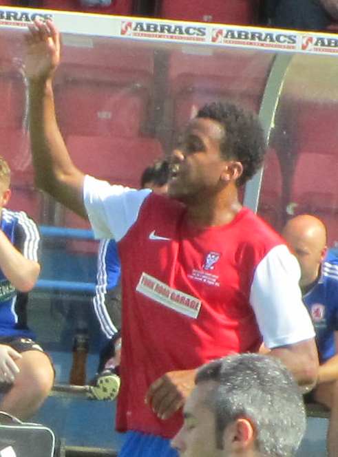 Oli Johnson